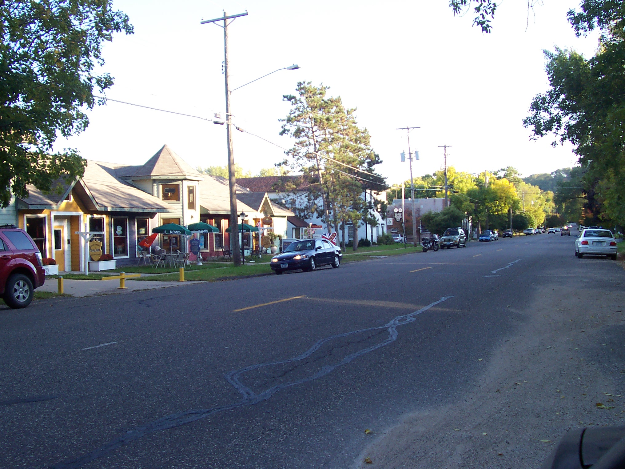 Downtown Afton, Minnesota. Not that good of a pic, but it beats nothing.